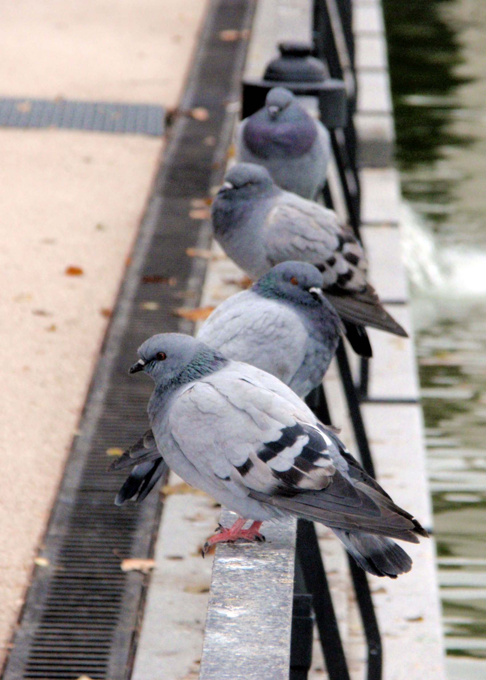 Pigeons on a railing